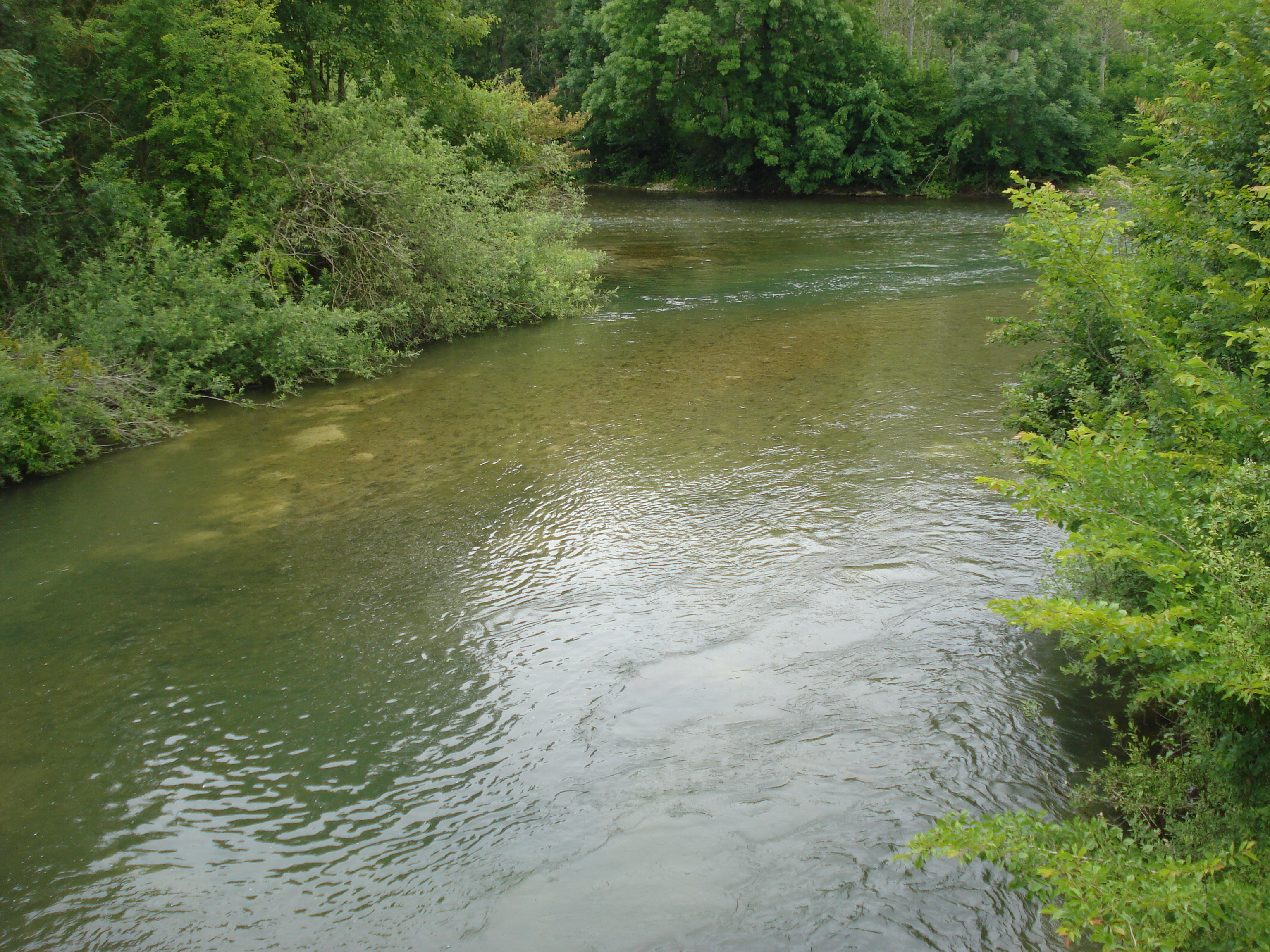 L'Ource à son confluent avec la Seine à Merrey-sur-Arce.